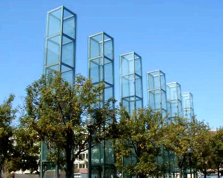 New England Holocaust Memorial, showing the six glass towers. Six towers: 6 million Jews killed; 6 major death camps; 6 years of extermination, 1939-1945